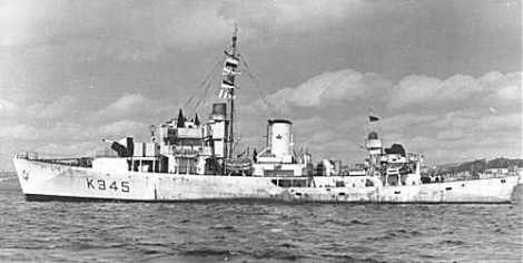 HMCS Smith Falls